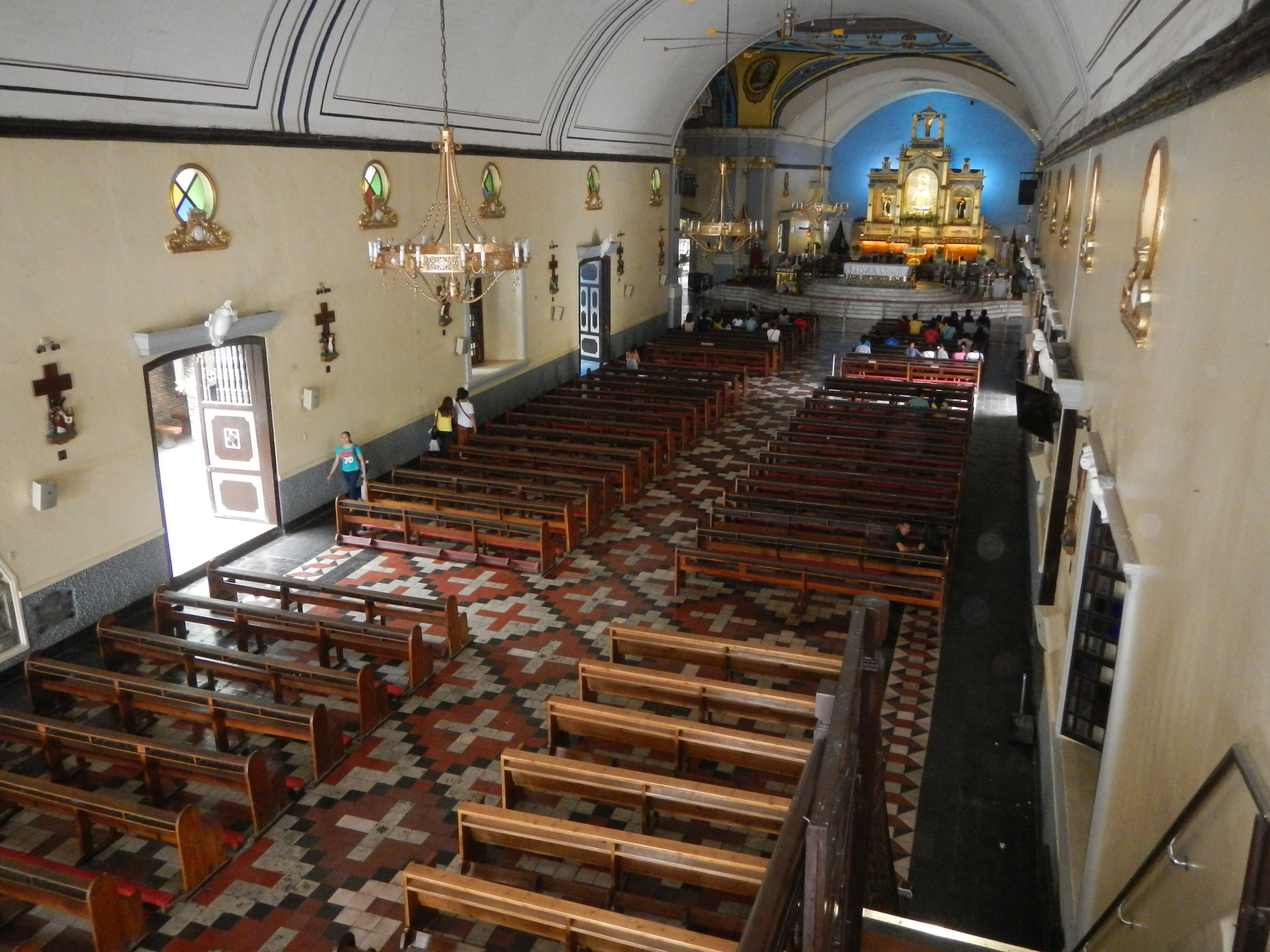 The 2016 Our Lady of Manaoag (Interior and Exterior of the Minor Basilica and Shrine of Our Lady of the Rosary of Manaoag, has been granted a SPECIAL BOND OF AFFINITY with the Papal Basilica of Saint Mary Major in Rome on July 22, 2011; on April 21, 2016 declared as Sanctuary, Pope grants Manaoag shrine the title of ‘minor basilica’, February 17, 2015, in List of barangays in Pangasinan, Barangays of Pangasinan, April 13, 2016 is the Fiesta, Barangay Poblacion, beside Barangay Pugaro, Manaoag, Pangasinan, Pangasinan Province along the Poblacion-Pugaro, Manaoag, Pangasinan Farm to Market Road along the Manaoag-Urdaneta, Pangasinan Provincial Road interconnecting with and from MacArthur Highway (Binalonan, Pangasinan section) and MacArthur Highway (Urdaneta, Pangasinan section) of MacArthur Highway or Manila North Road gateway to Tarlac–Pangasinan–La Union Expressway (TIPLex, Carmen, Rosales-Urdaneta, Pangasinan section) of Tarlac–Pangasinan–La Union Expressway).